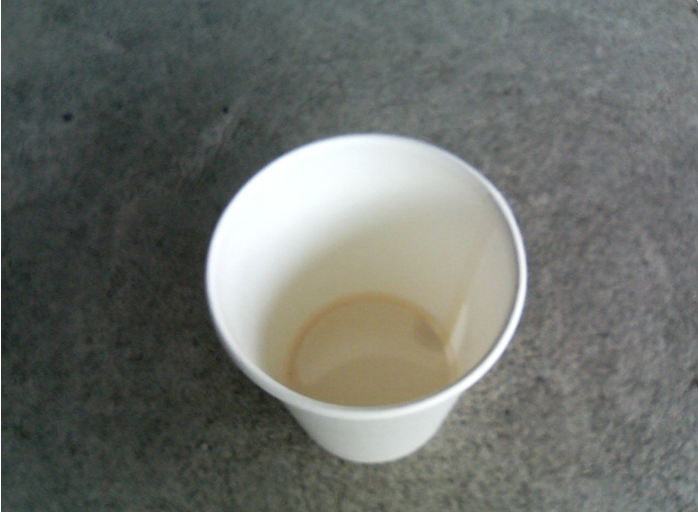 Regular gasoline for motorcycle (purchased from gas station in Japan)